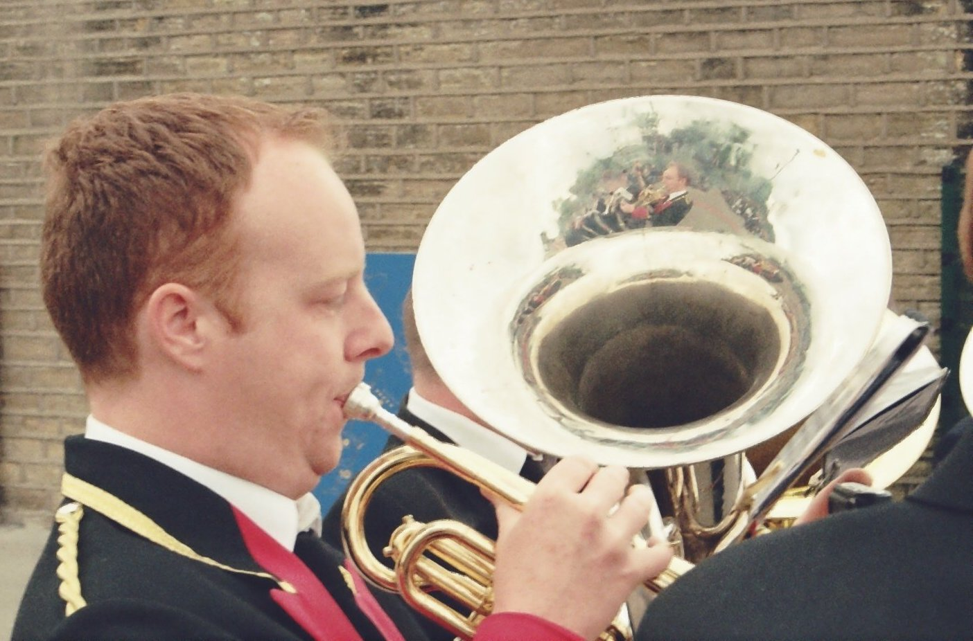 A Tuba player (and band) competes in a Whit Friday, Mossley, Greater Manchester, England. The idea was to get the remainder of the band reflected in his extremely shiny instrument. It sorta worked... ;)